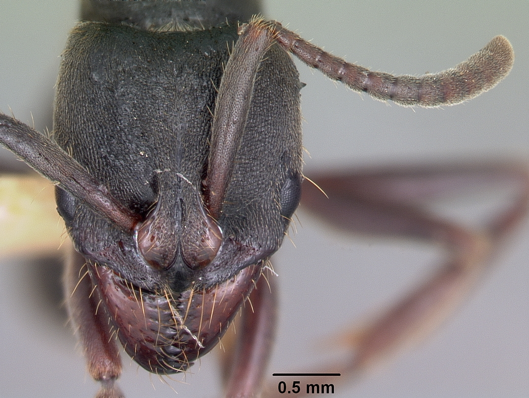 Head view of ant Pachycondyla harpax specimen casent0104808.